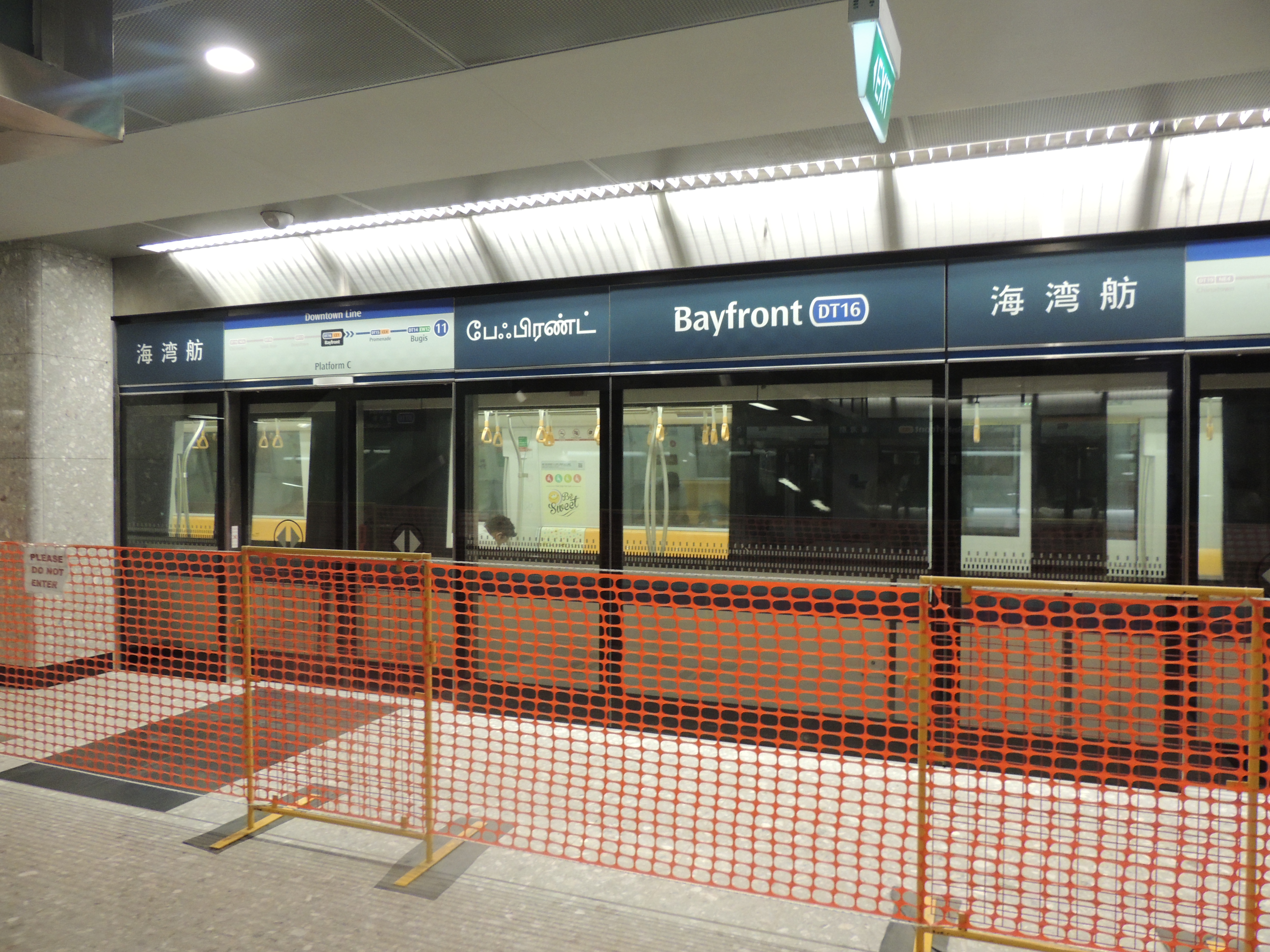 Platform C of the Bayfront MRT Station (towards Bugis) nine days before the opening of the first stage of the Downtown Line on 22 December 2013.